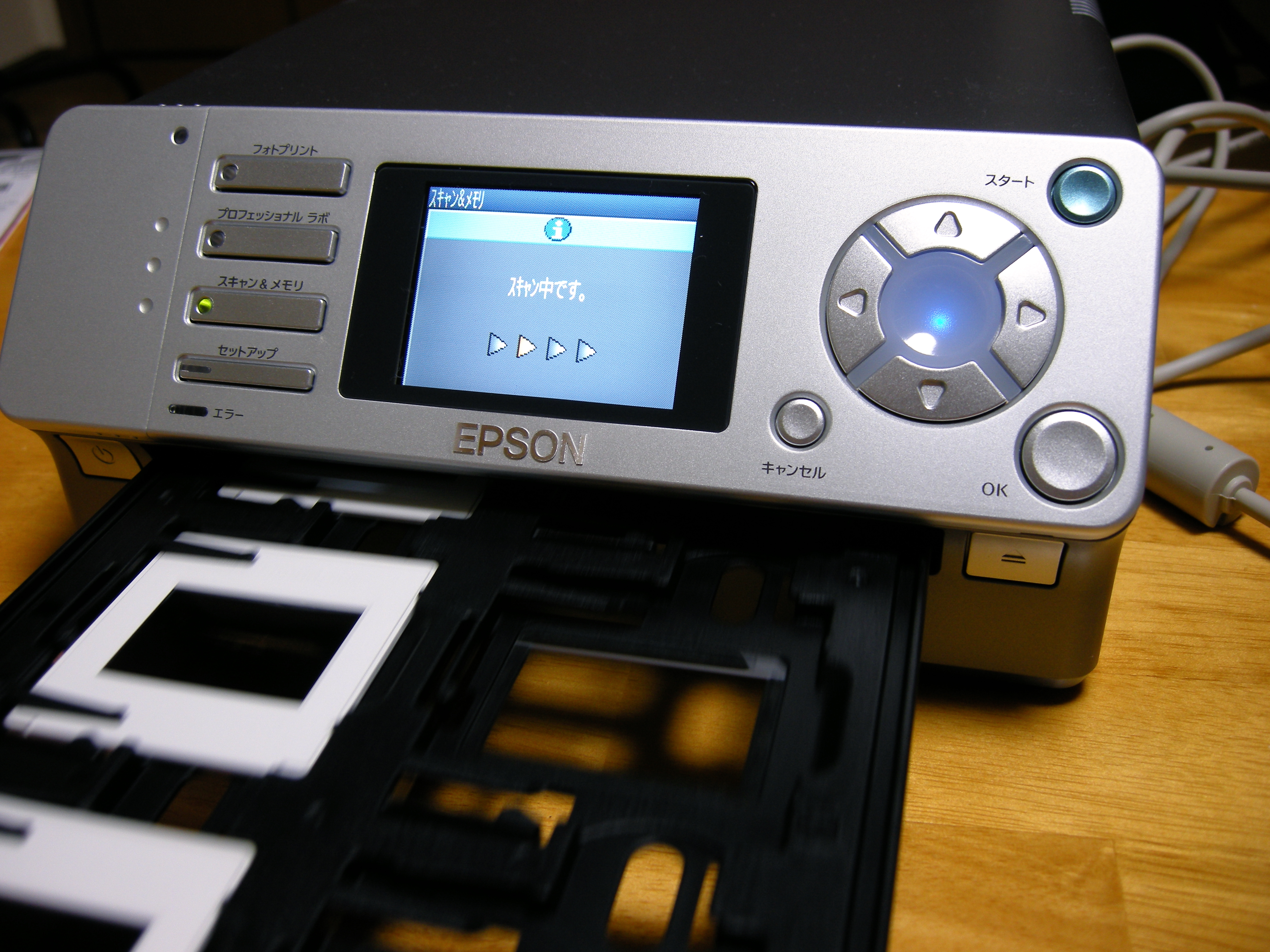 New Item ... Epson F-3200 Film Scanner.